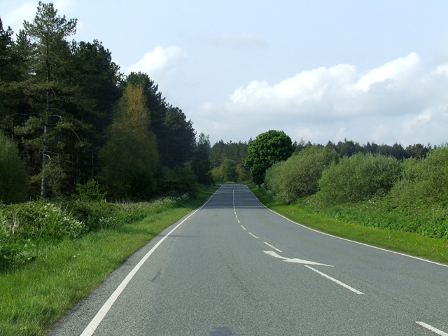 A 4080 road outside Newborough. A view of the A4080 road at it approaches the Forest after leaving the village of Newborough